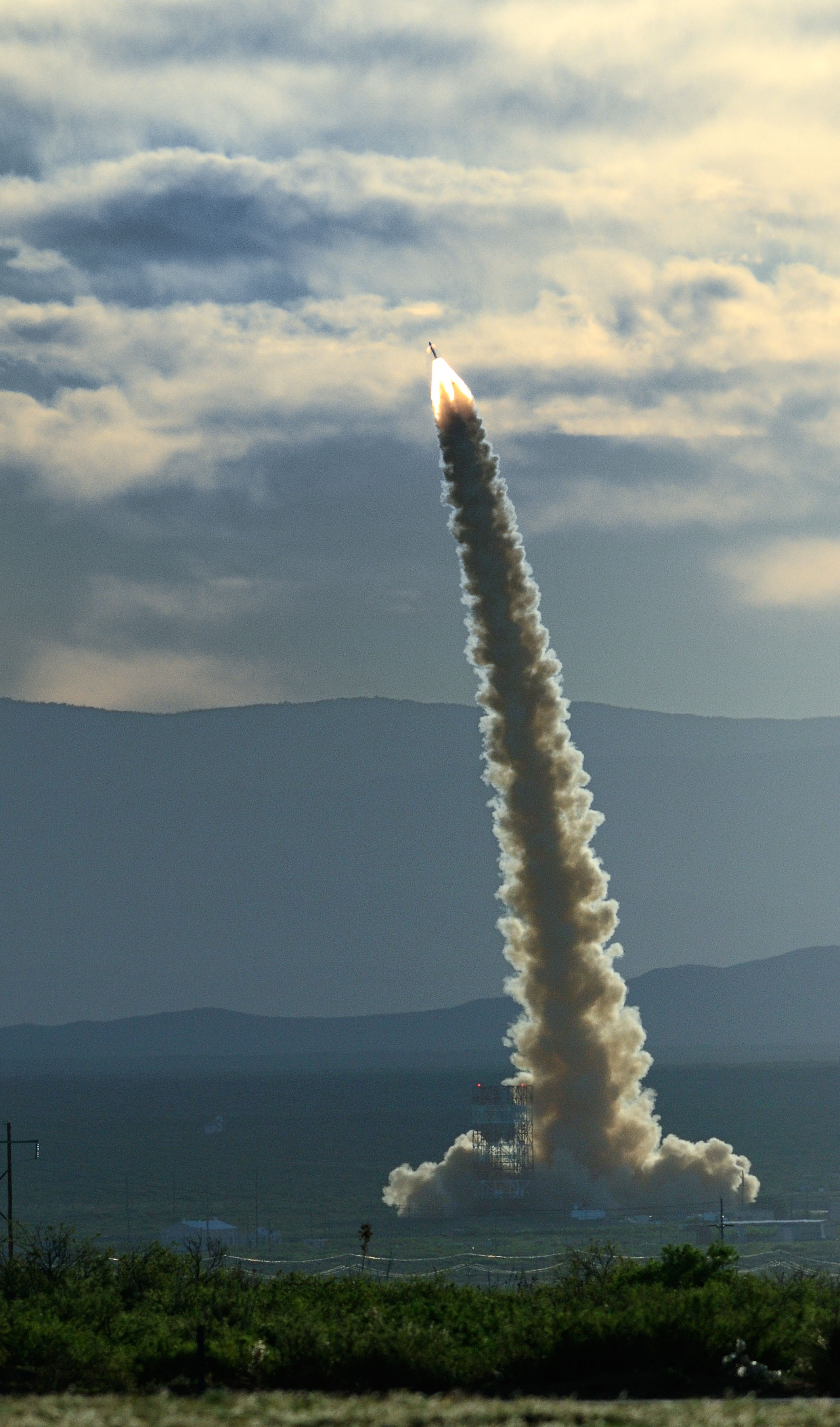 The Orion launch abort system lifts off during the Pad Abort 1 flight test on May 6, 2010 at the White Sands Missile Range.